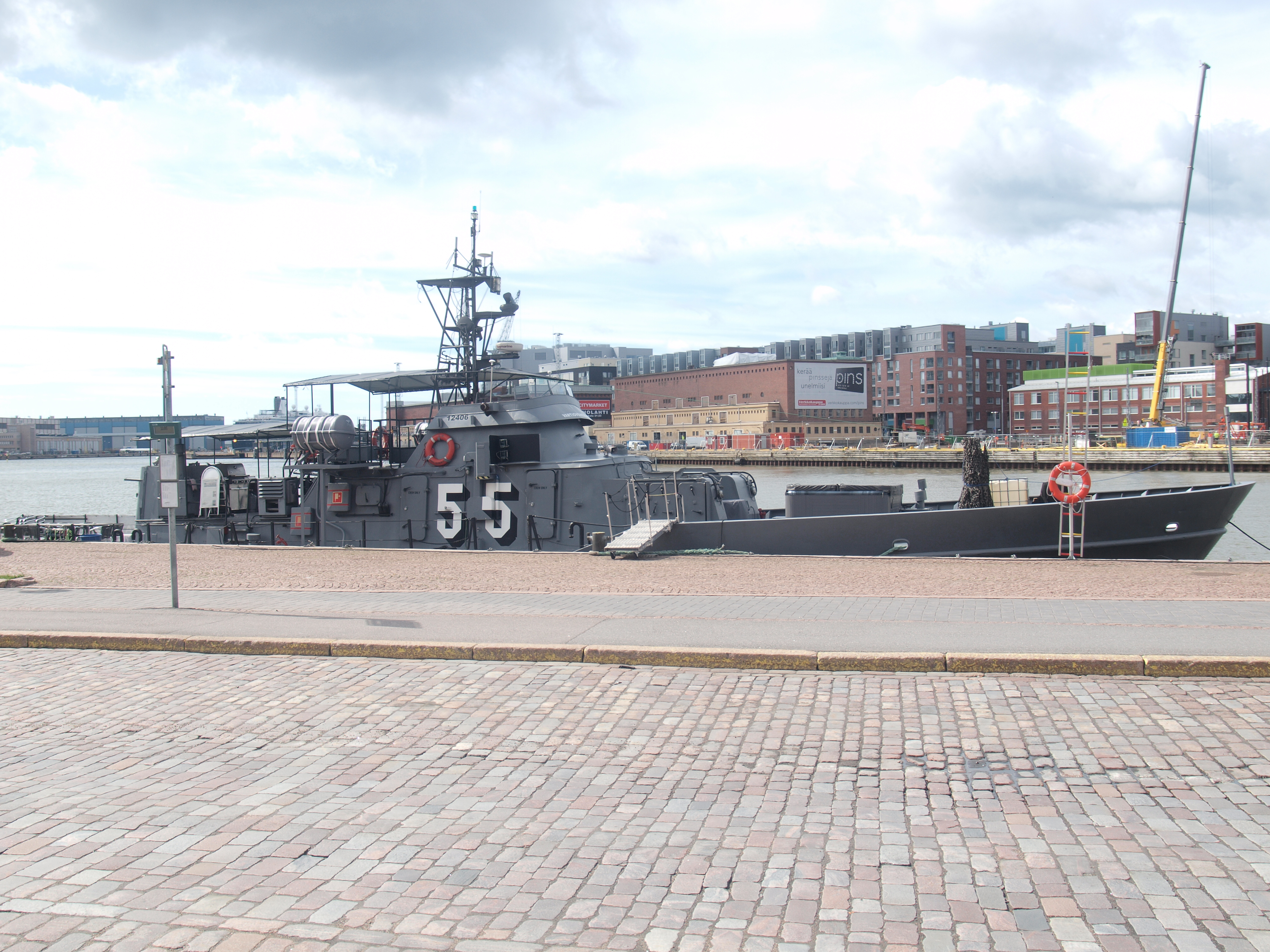 Vartiovene 55, a former Finnish Navy patrol boat converted into a commercial cruise ship, docked in Hietalahti, Helsinki, viewed from the side.